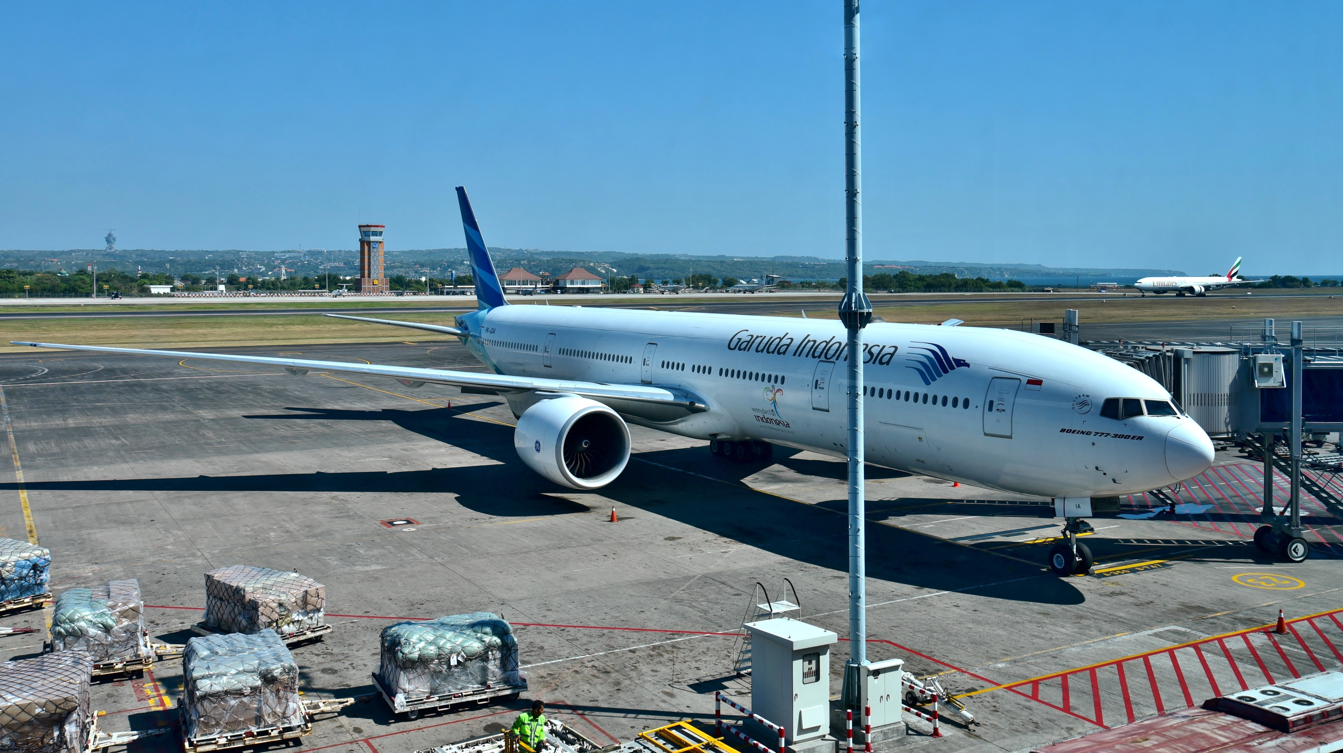 Garuda Indonesia Boeing 777-3U3(ER) PK-GIA at Ngurah Rai International Airport, Denpasar, Bali, Indonesia